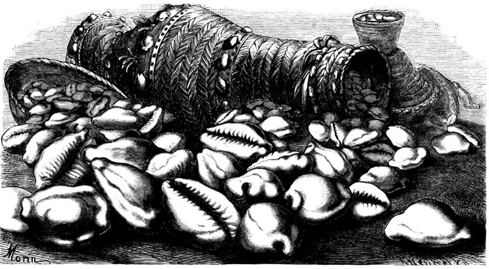 Cowry shells, Cypraea moneta. Now: Monetaria moneta (Linnaeus, 1758)